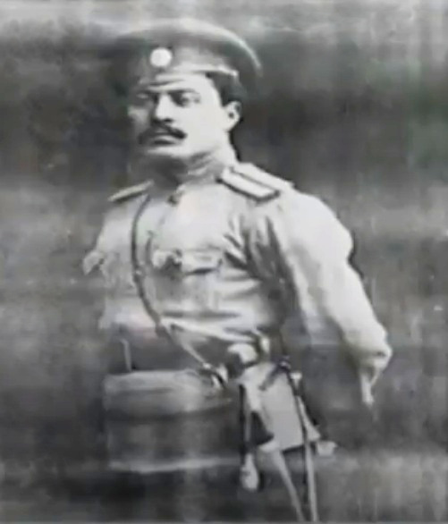 Podporuchik Tarlan Aliyarbayov